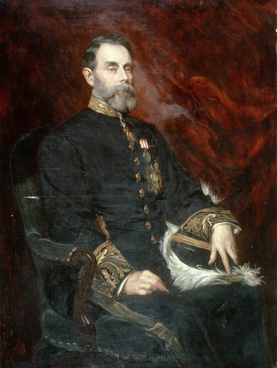 A painting from the Framed Works of Art collection at the National Library of wales.